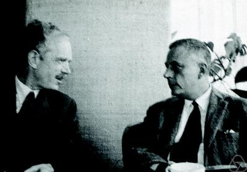 Marshall Hall (right), Ernst Witt